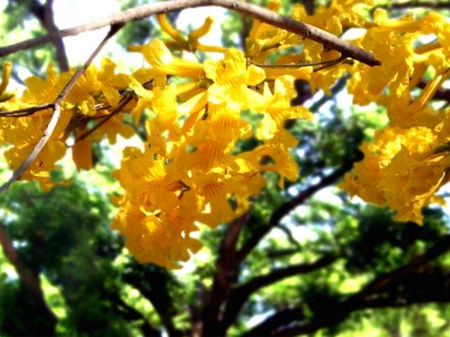 Tabebuia chrysotricha flowers